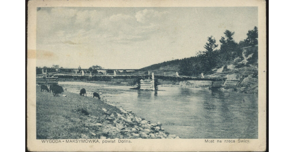 Vyhoda- Maksymivka, powiat of Dolyna, bridge over Svicha River, 1920s